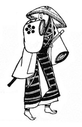 Portrait of Sakata Tōjūrō I by Ogakuzu, 1699.